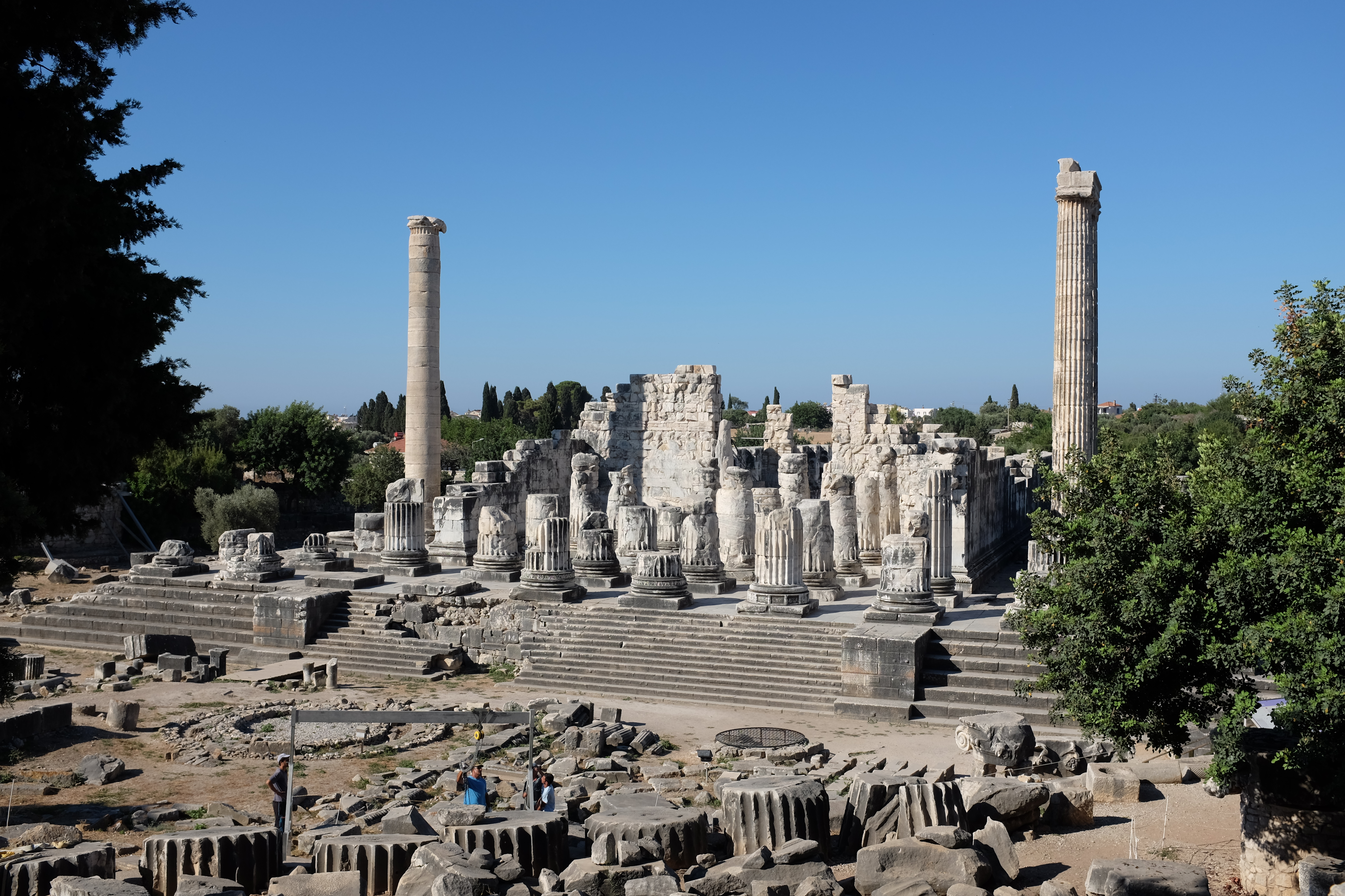 Frontal view of the Didymaion.